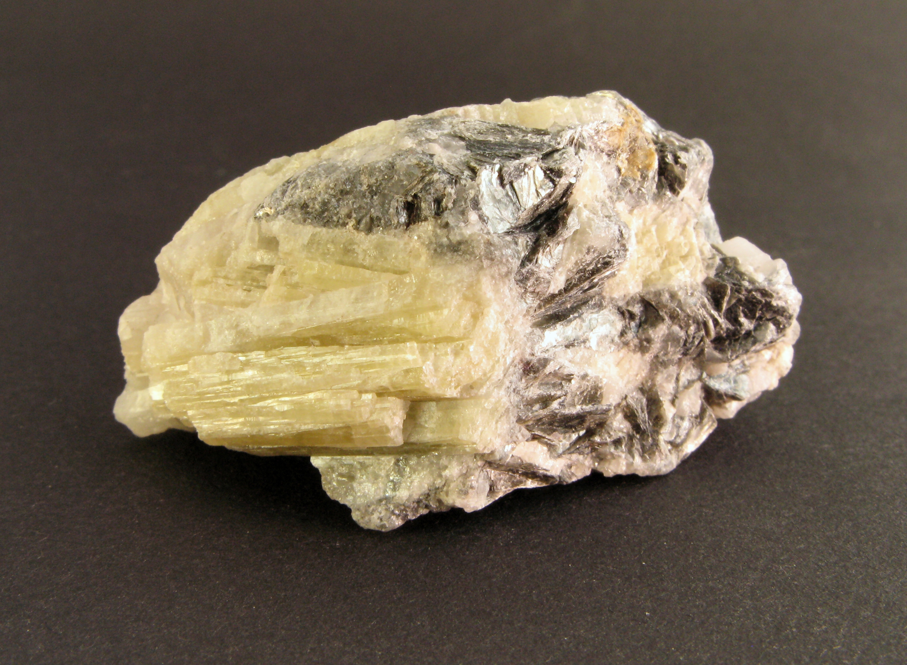 Pyknite: columnar grown Topaz with Biotite (Size: 4.5 cm x 2.5 cm) Locality: Altenberg, Saxony, Germany